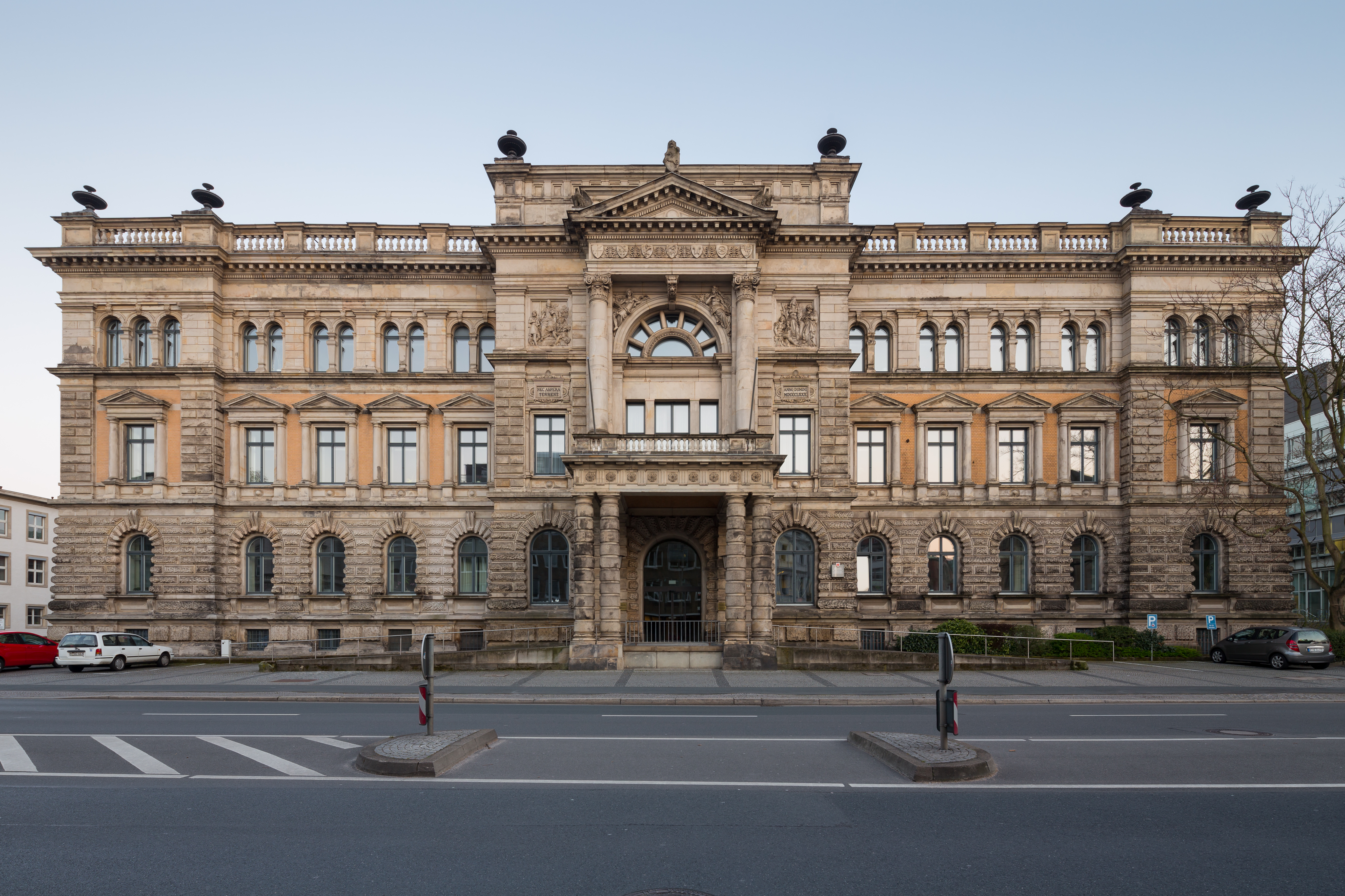 Former Provinzial-Staendehaus building, nowadays Lower Saxony's finance ministry located at Schiffgraben no. 10 in Mitte quarter of Hannover, Germany.